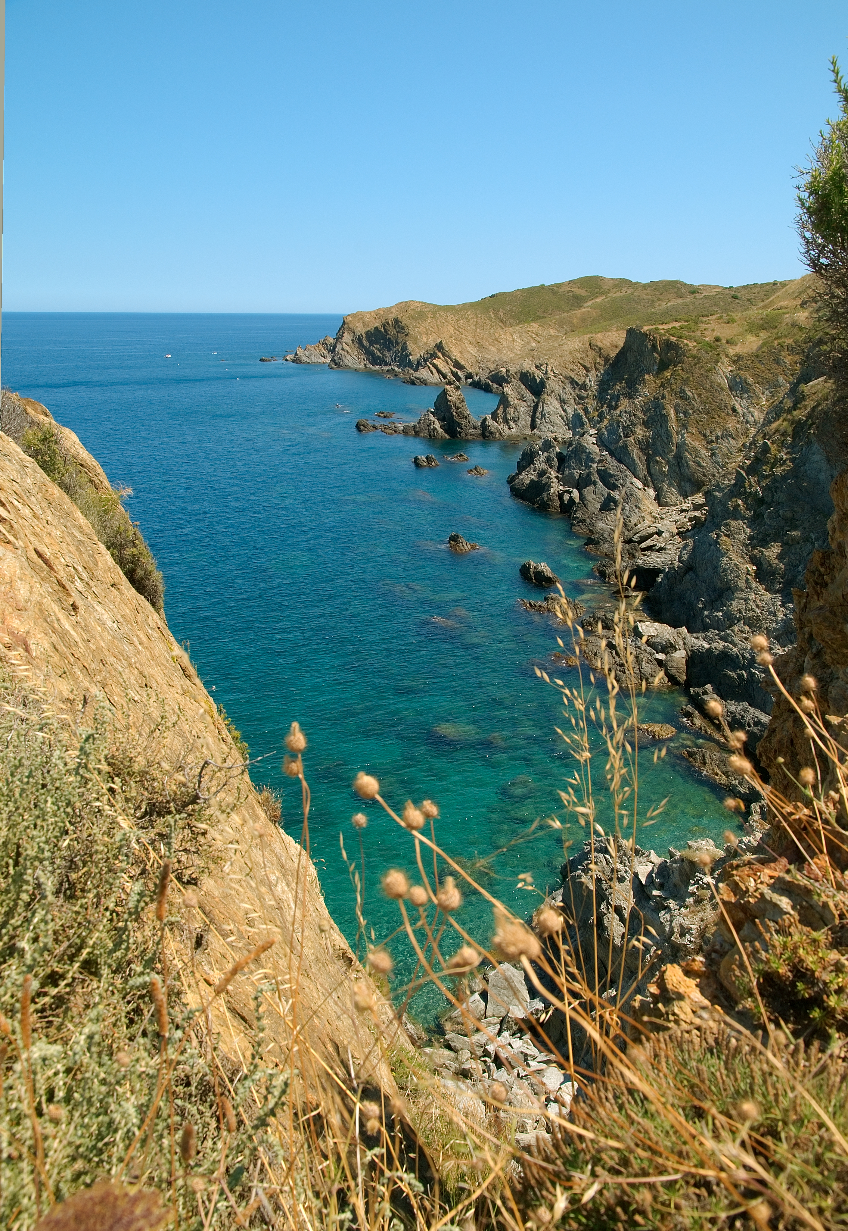 Banyuls sur mer (France)